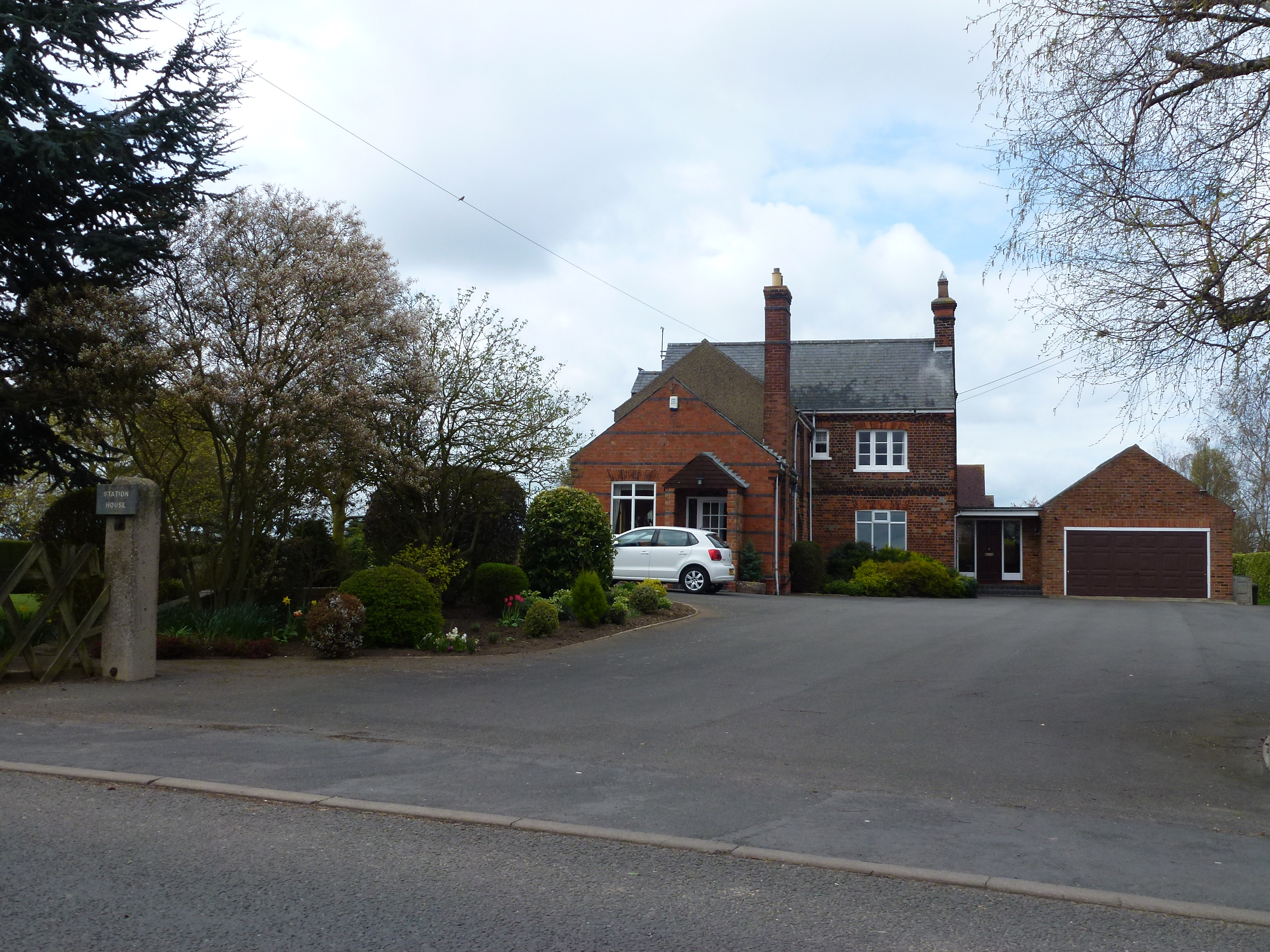 Station House, Moulton near Spalding